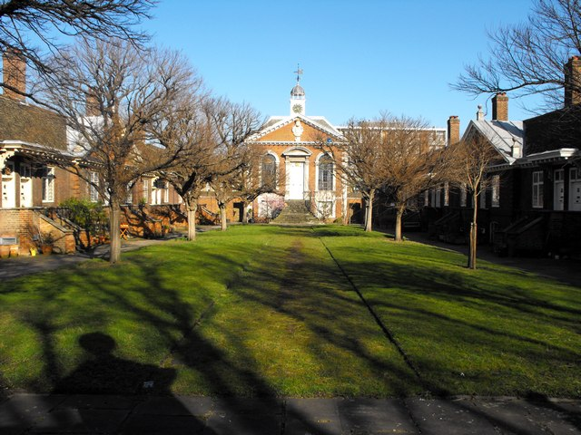 Trinity Green and Alms Houses E1 Viewed from the main gates on Mile End Road. See geograph for the plaque on the wall next to the main gate.